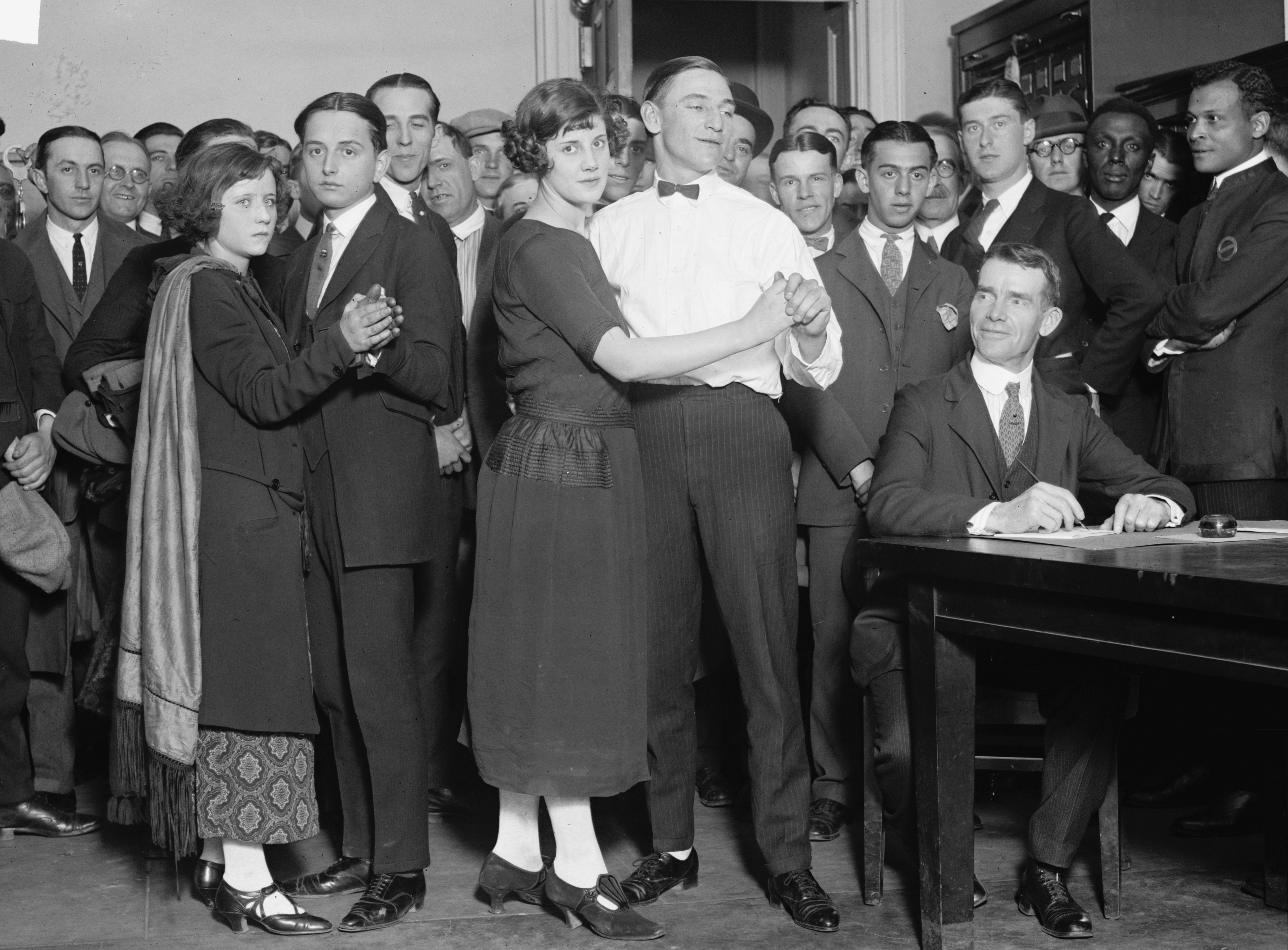 Title: Marathon Dancers Abstract/medium: National Photo Company Collection (Library of Congress) Physical description: 1 negative